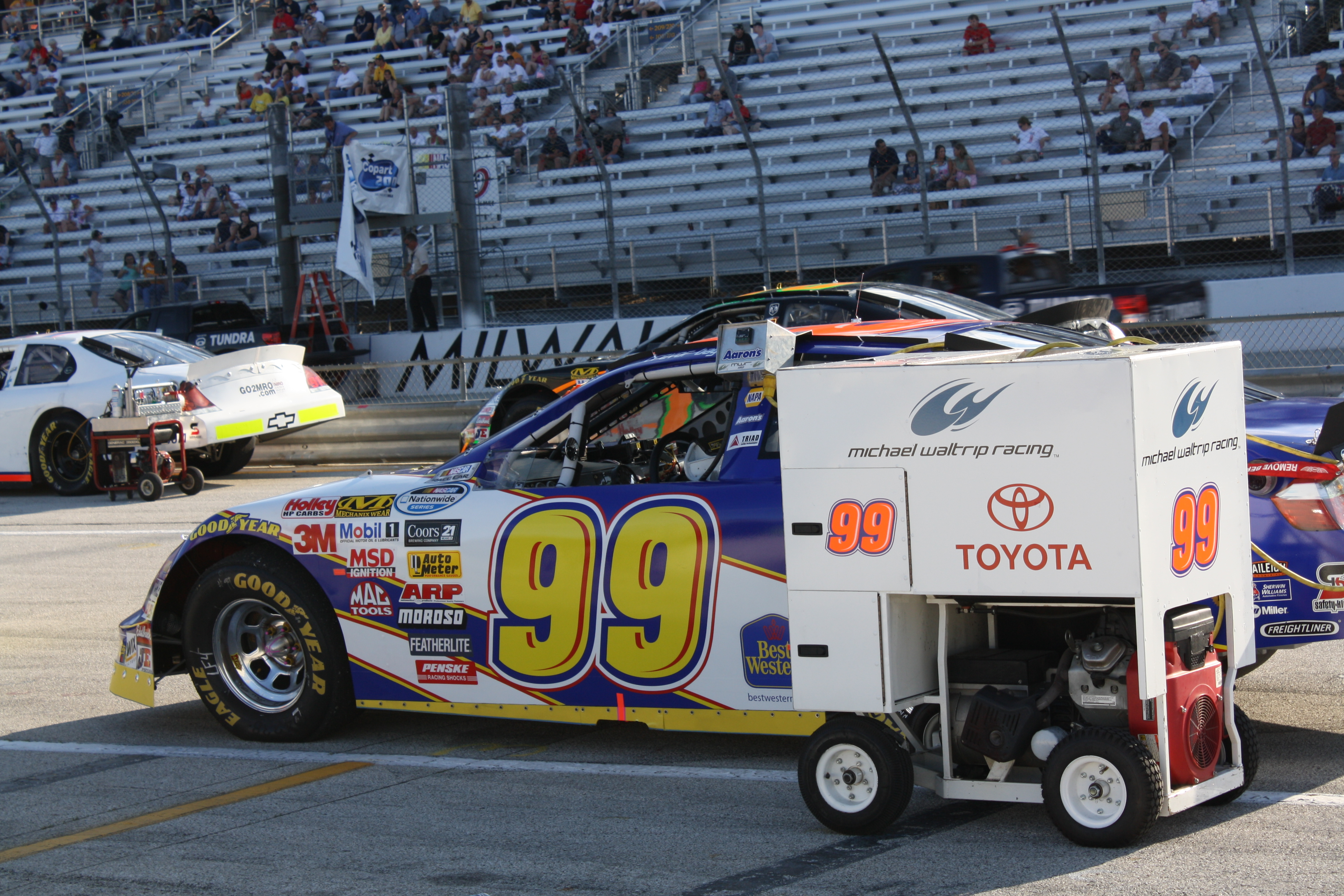 NASCAR driver Trevor Baynes Toyota at the 2009 Northern 250 Nationwide Series race at the Milwaukee Mile.